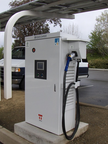 CHAdeMO high speed charger at Vacaville, California Park and Ride lot (Davis St and I-80)